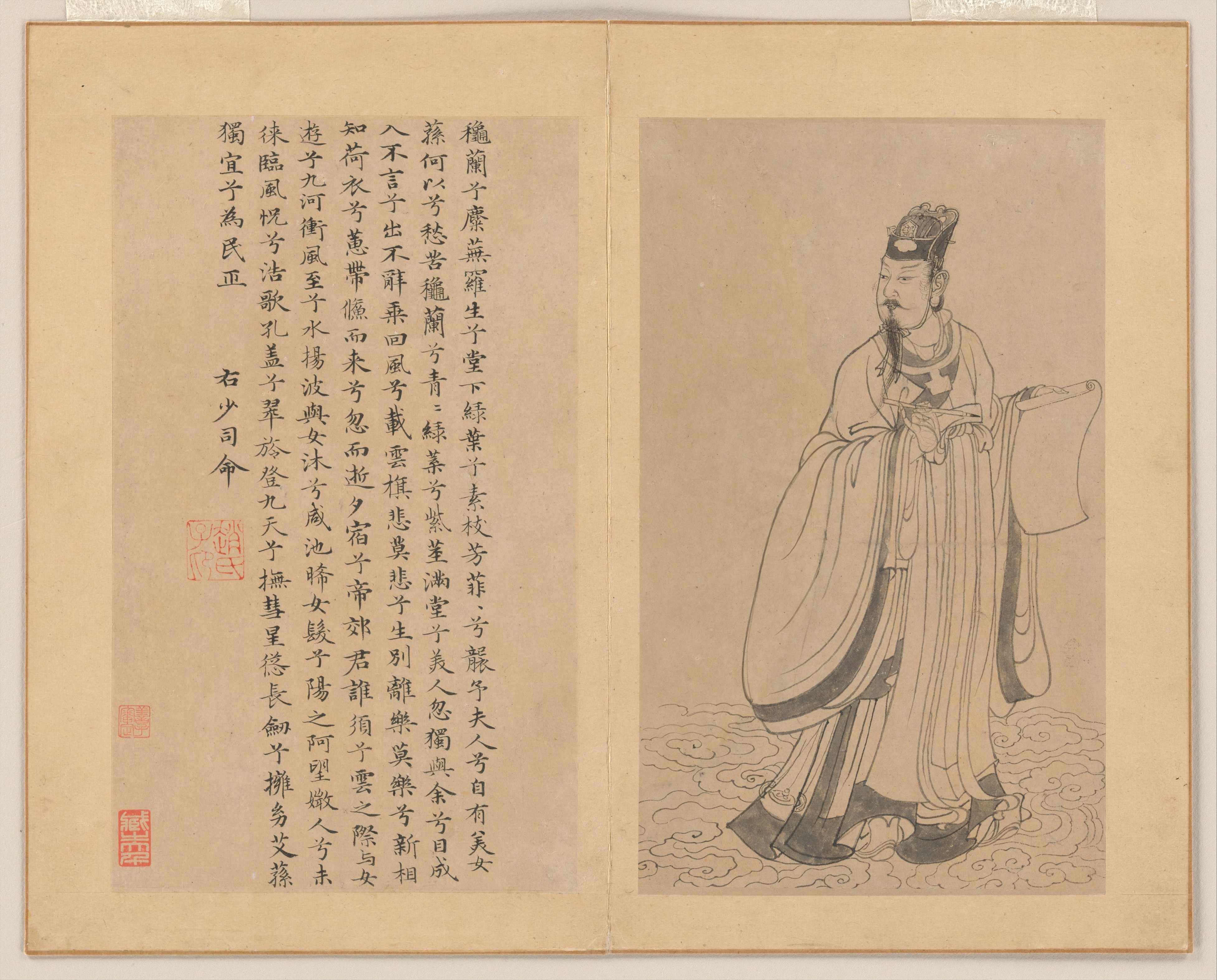 The Metropolitan Museum of Art states: The Nine Songs are lyrical, shamanistic incantations dedicated to nine classes of deities worshipped by the Chu people of south China during the first millennium B.C. The original text consists of eleven songs, ten of which are transcribed and illustrated here. The illustrations are preceded by a portrait of the poet Qu Yuan (343–277 B.C.), which is accompanied by an essay entitled "The Fisherman," recounting the poet's state of mind toward the end of his life. Zhao Mengfu's paintings for the Nine Songs in the baimiao, or "white-drawing" style, are based on compositions by Li Gonglin (ca. 1041–1106) and were a primary source for later fourteenth-century paintings of this theme by Zhang Wu (active 1333–65) and others. Because the calligraphy in the album does not compare with the best of Zhao Mengfu's writing, it is probable that these leaves represent close, reliable copies of Zhao's important work, executed during the fourteenth century. One leaf, "The Lord of Clouds," is a later replacement (no earlier than the seventeenth century).